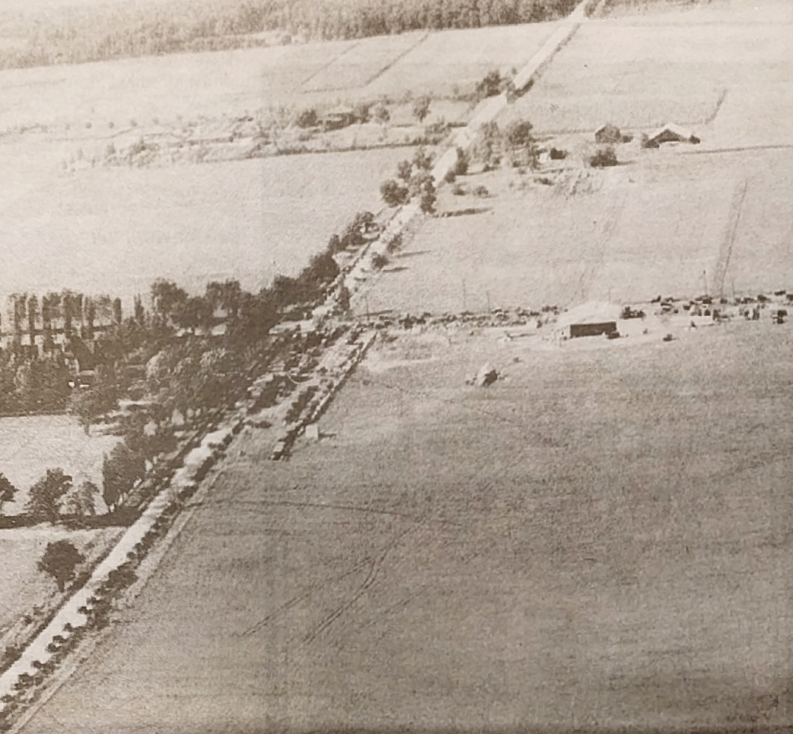 Snelling and Larpenteur Avenues with the Quinn farm and Curtiss Northwest Airport